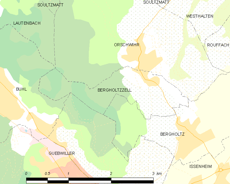 Map of French municipality